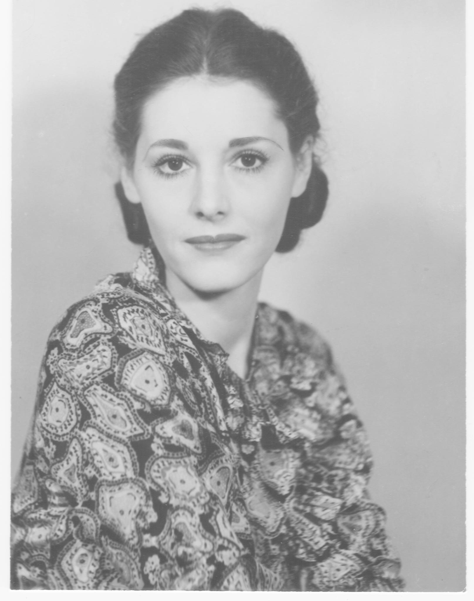 Margarete Schlegel, German actress and singer, London 1946. Photographer unknown.